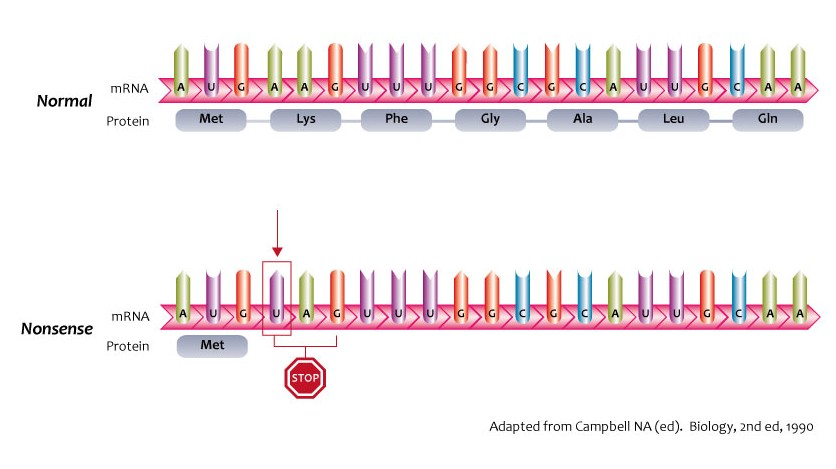 This image was created by the NHS National Genetics and Genomics Education Centre. For further information and resources please visit our website